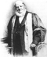 The portrait of Alexander Ellis